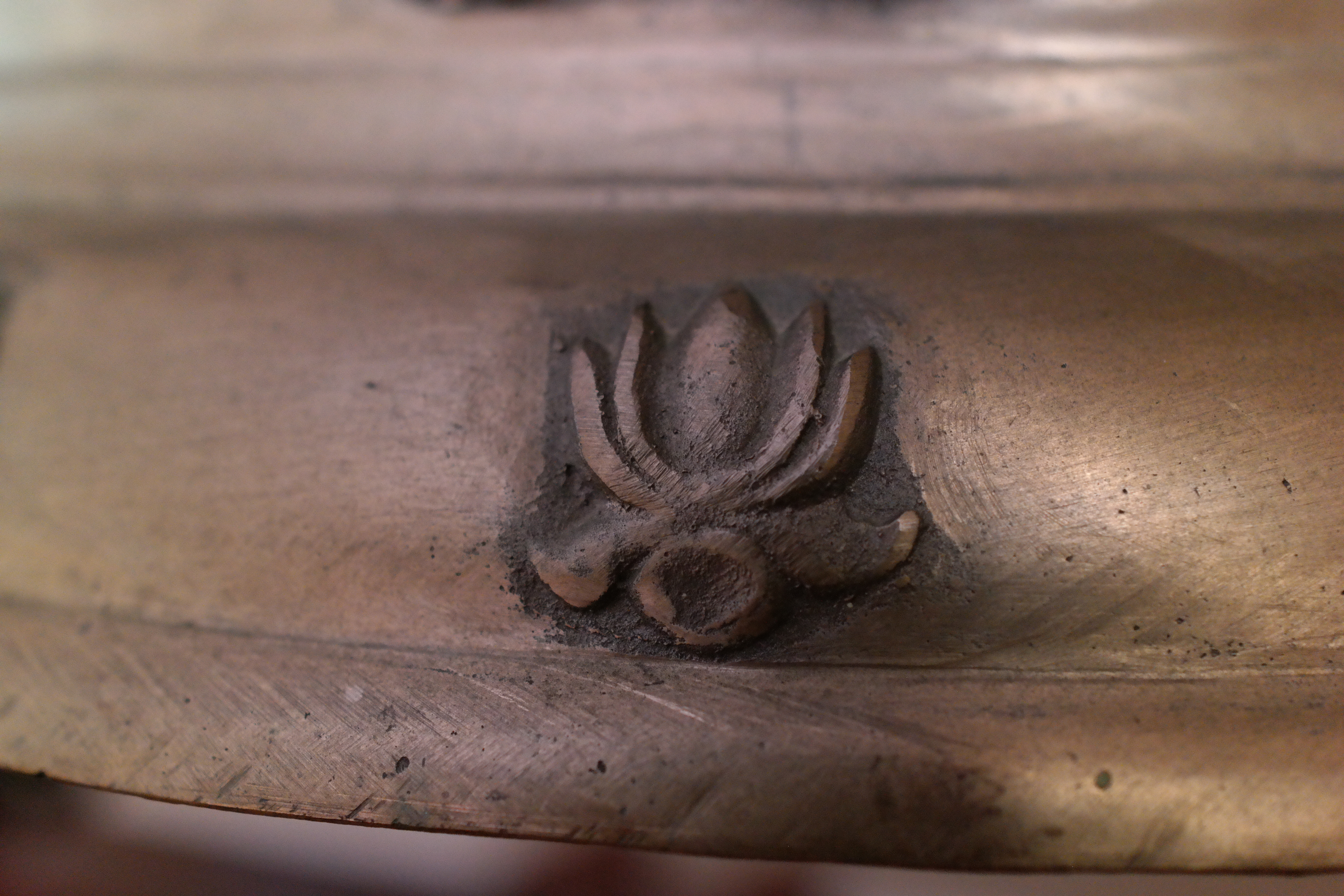 Lotus flower symbol on brass bell in a Vietnamese-American Buddhist temple.